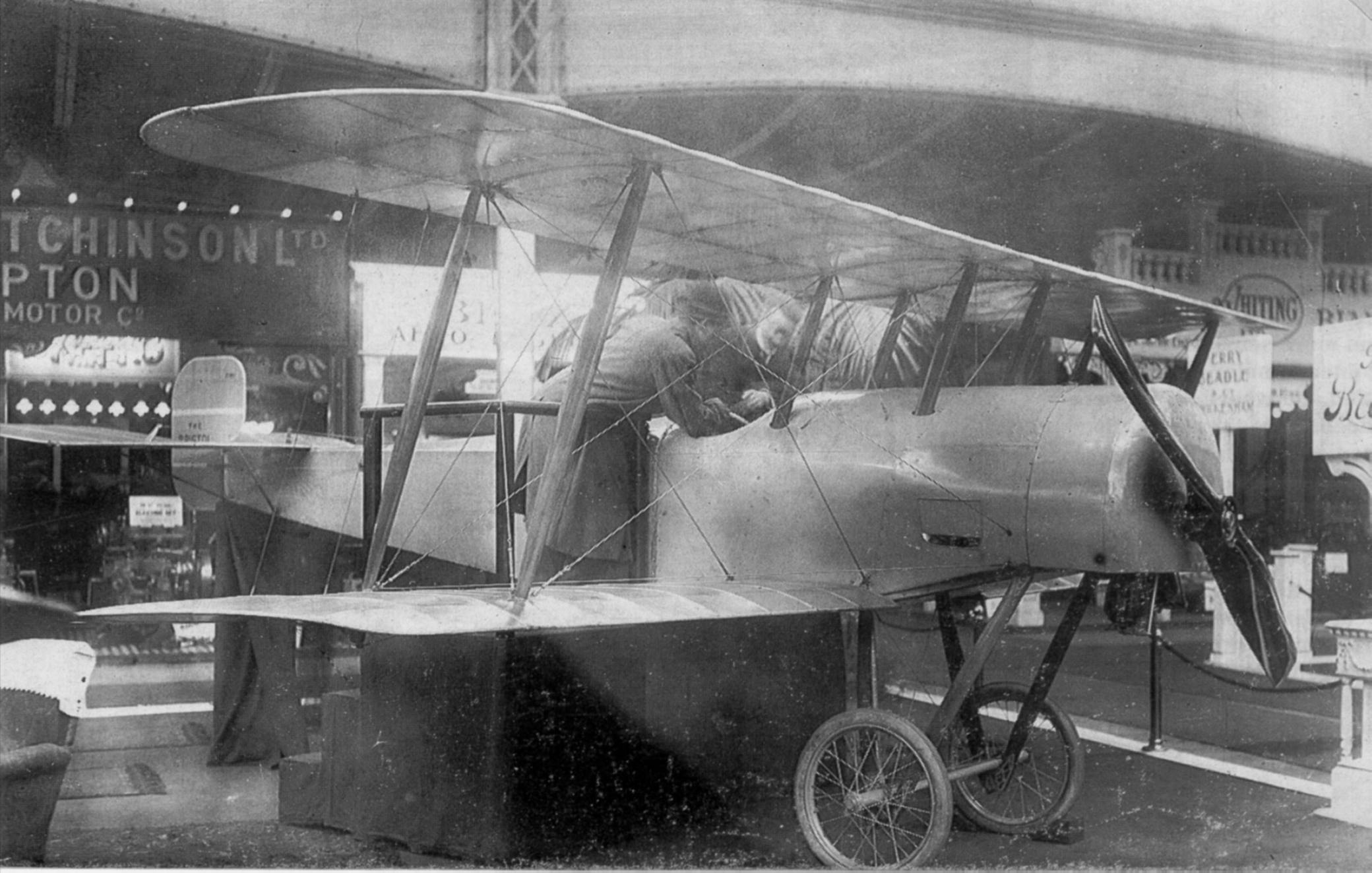 Photograph of the first Bristol Scout, No.206, in March 1914, in its original form on display at the 1914 Aero Show in Olympia.